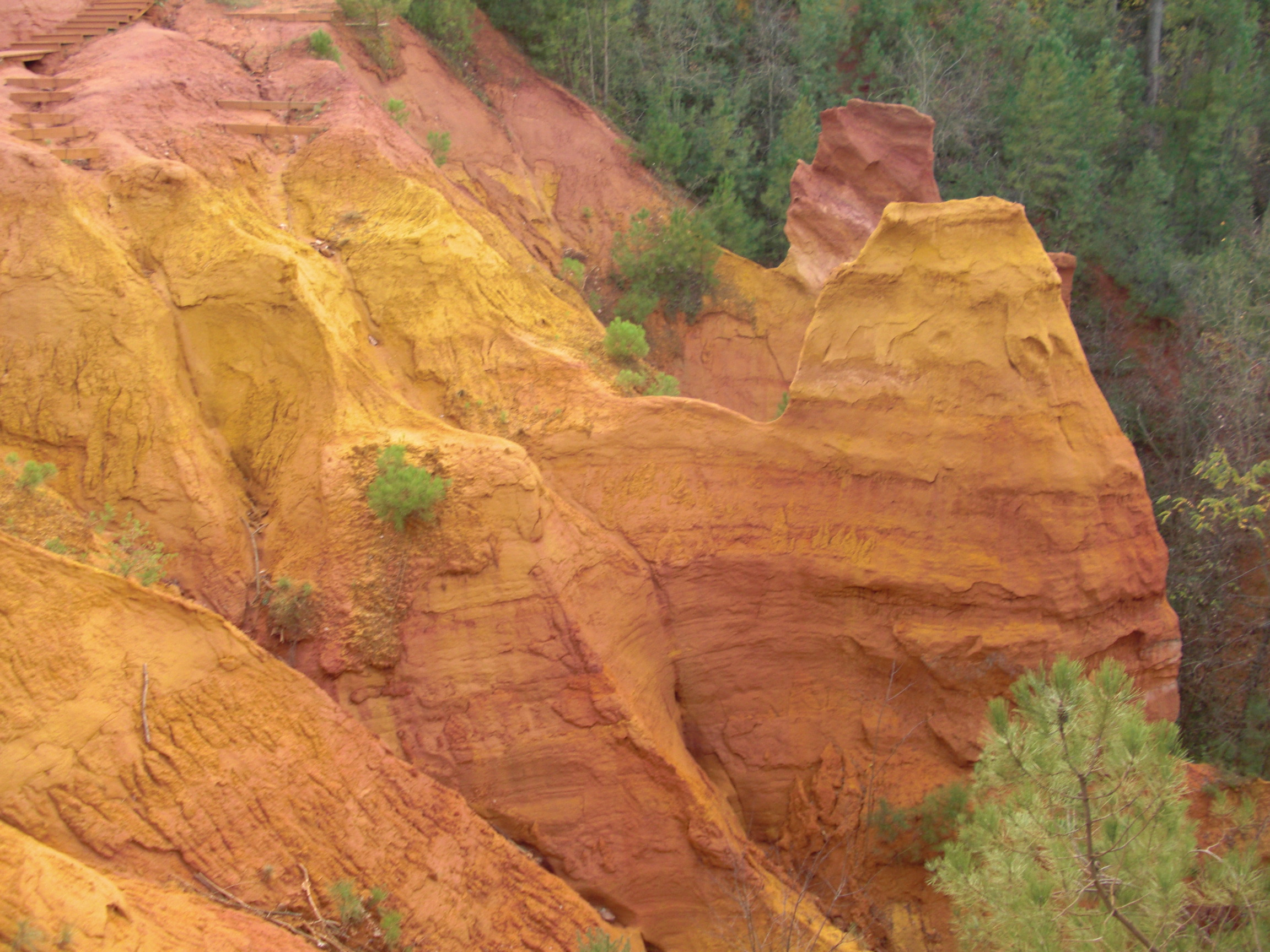 The ochre trail, Roussillon (Vaucluse, France)